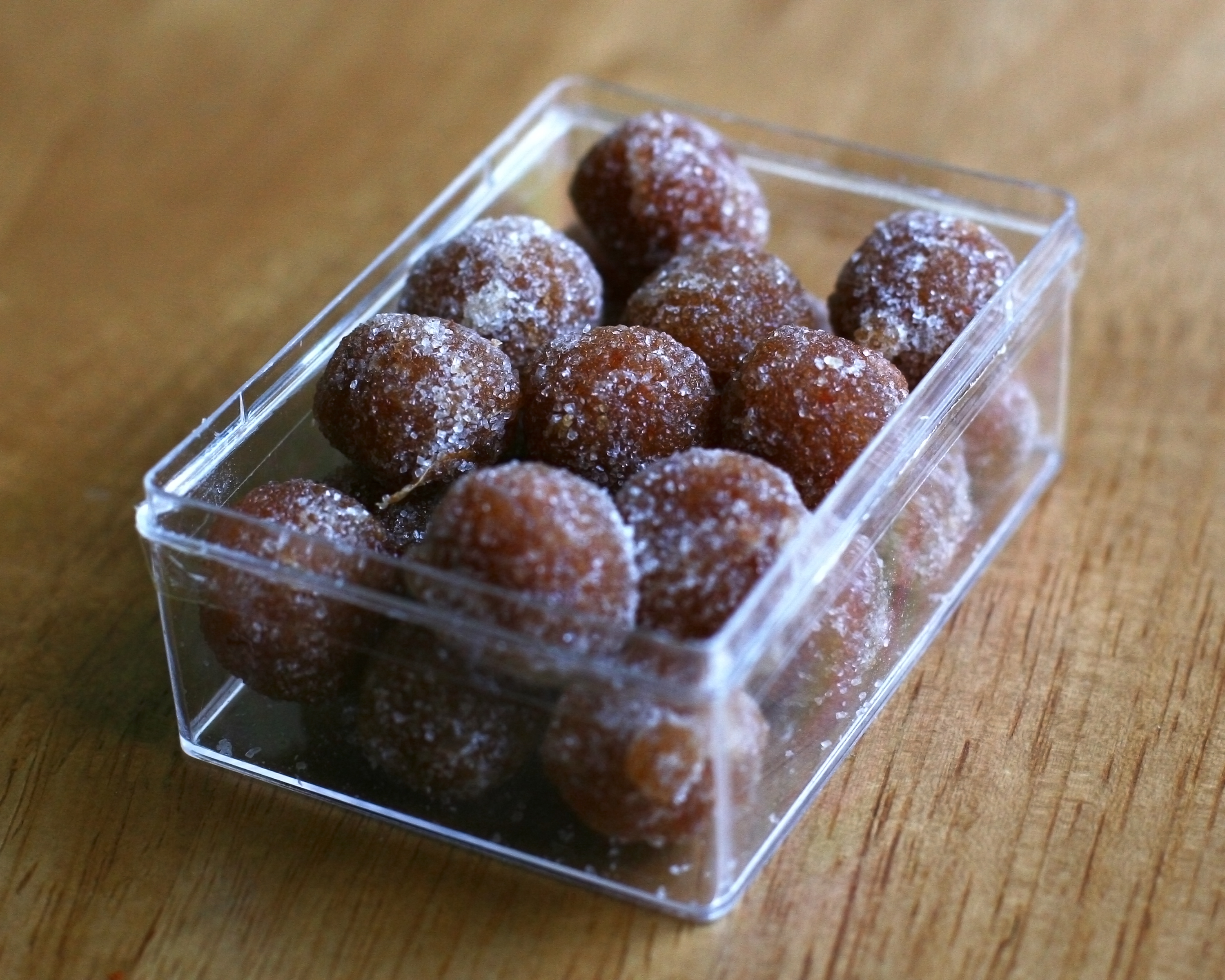 Balls of candy made from tamarind.